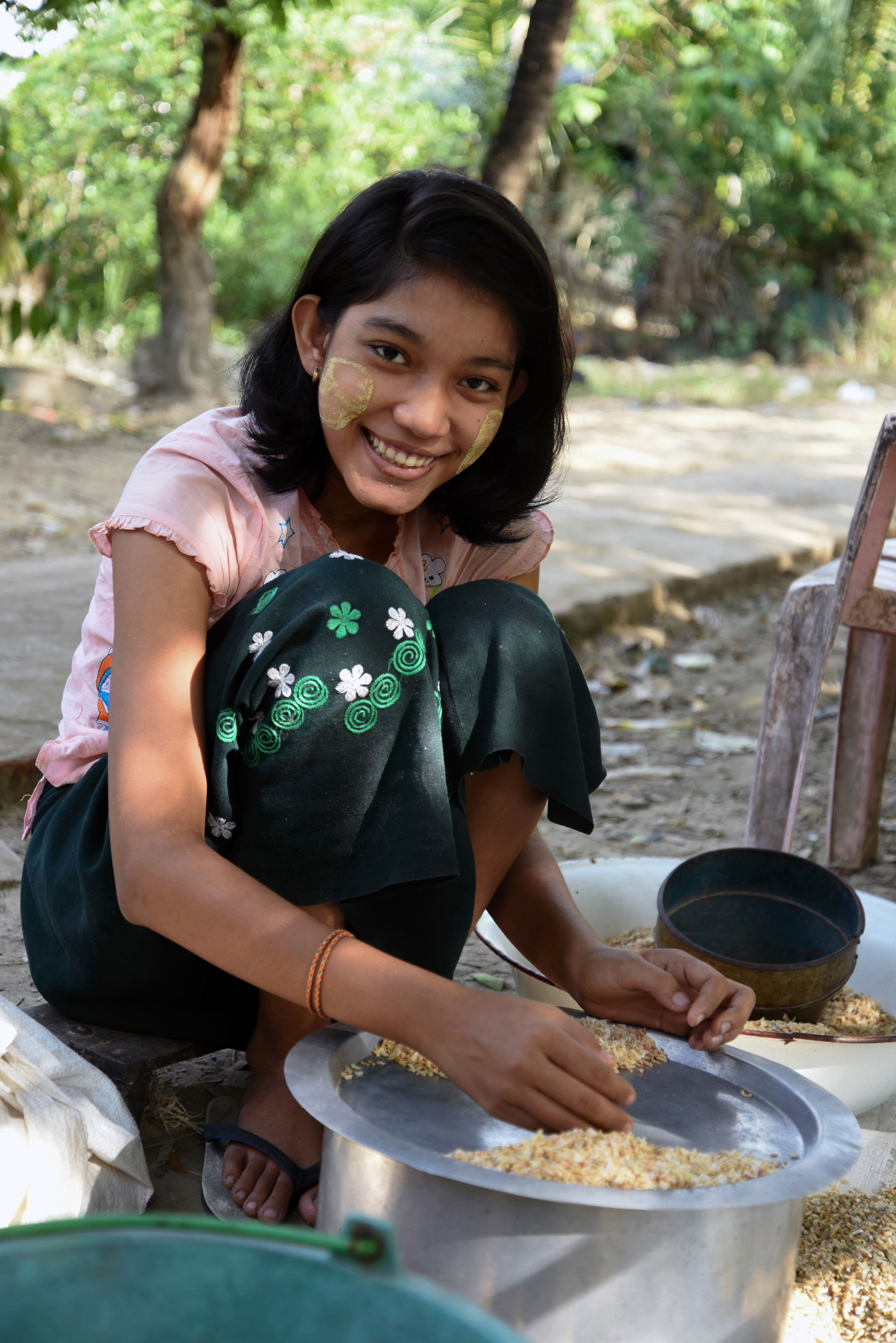 Purifying shrimp in the Kyonkadun village in Pyapon Township in the Ayeyarwady Delta, in Myanmar. Photo: Michelle Ng / IWMI 粵語: 緬甸豎榜，女仔洗緊蝦米。